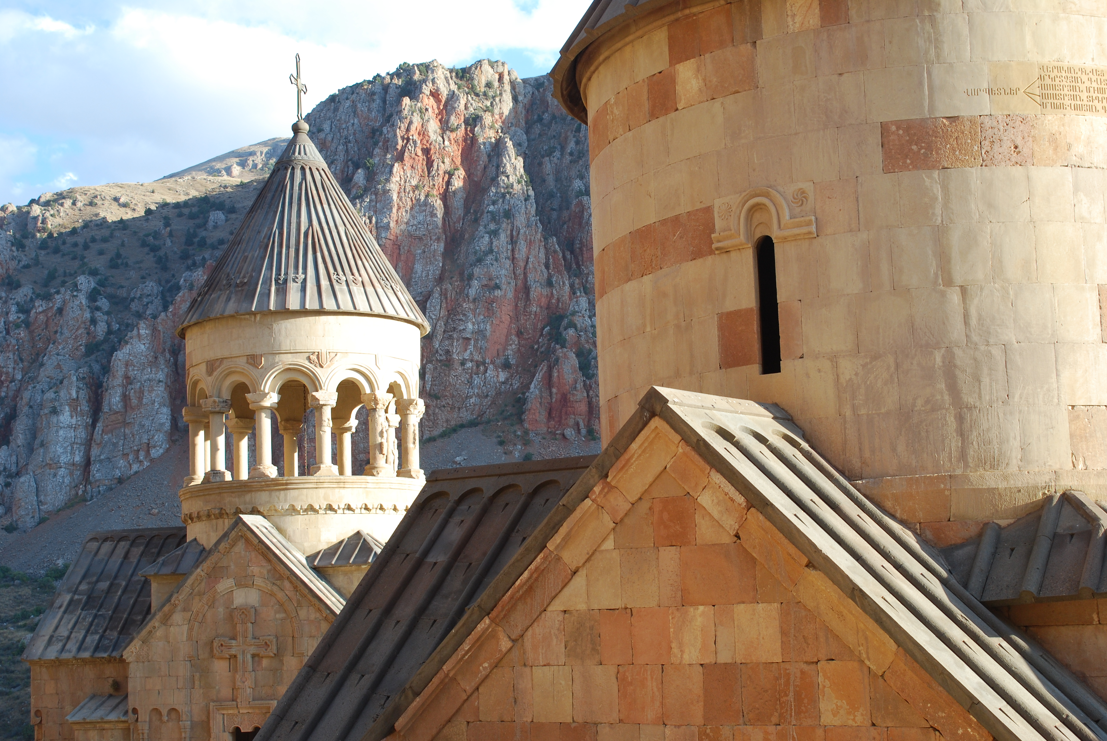 S. Astvatsatsin church with S. Karapet church in front plan. Noravank monastery, Armenia